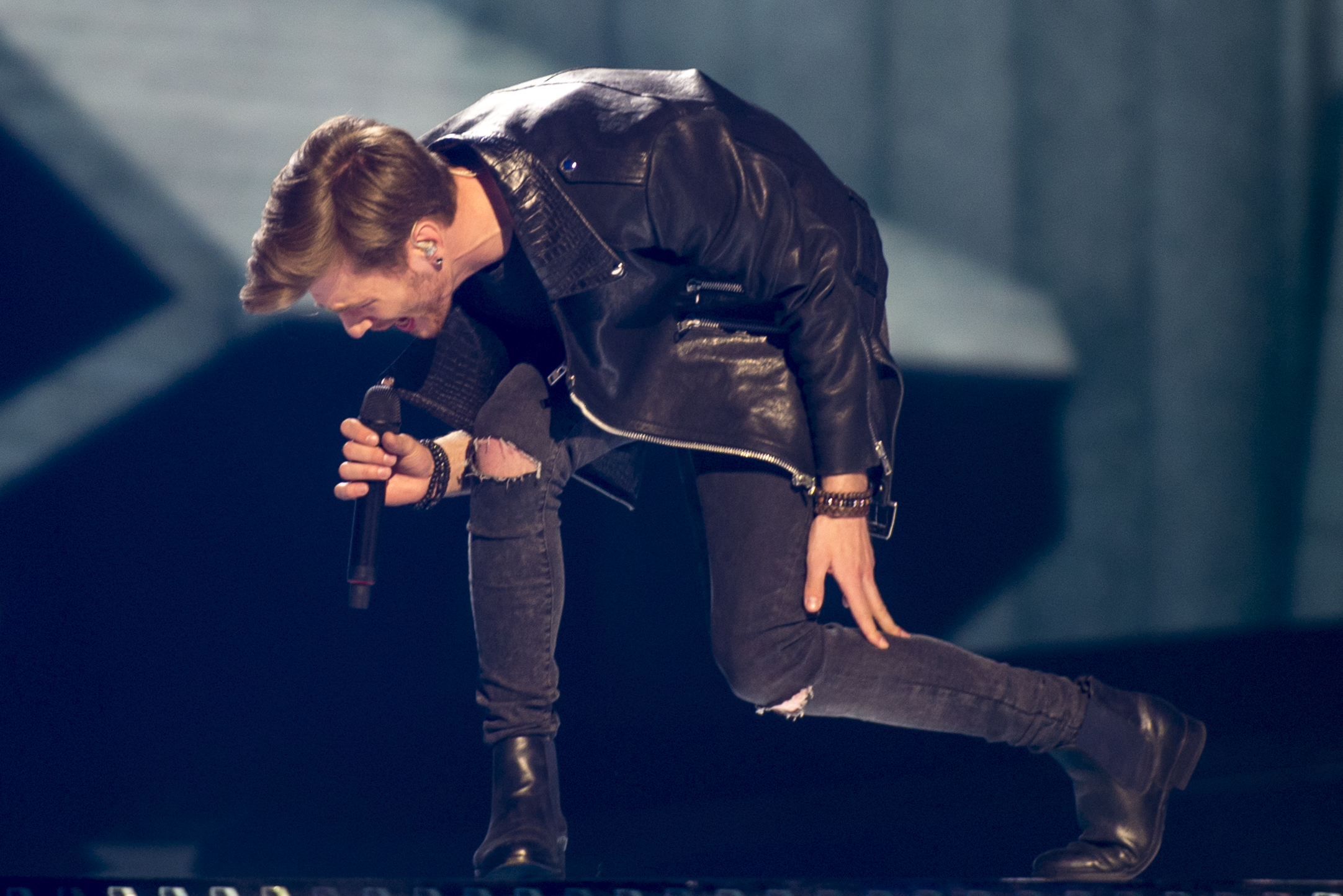 Justs representing Latvia with the song "Heartbeat" during a rehearsal before the second semi final of the Eurovision Song Contest 2016 in Stockholm. (Help translate this text)